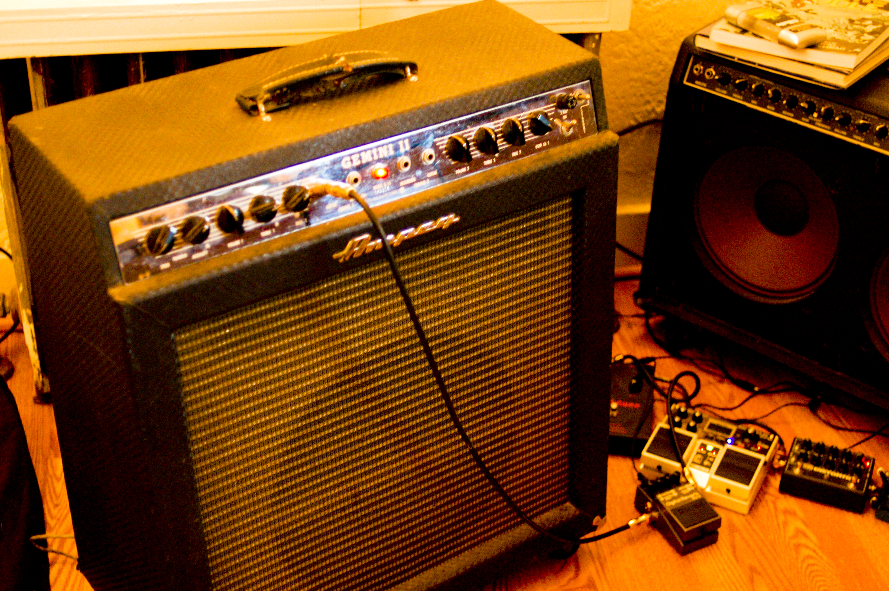 Ampeg Gemini II G-15L (1965-1968) i'm in love with the sound it makes